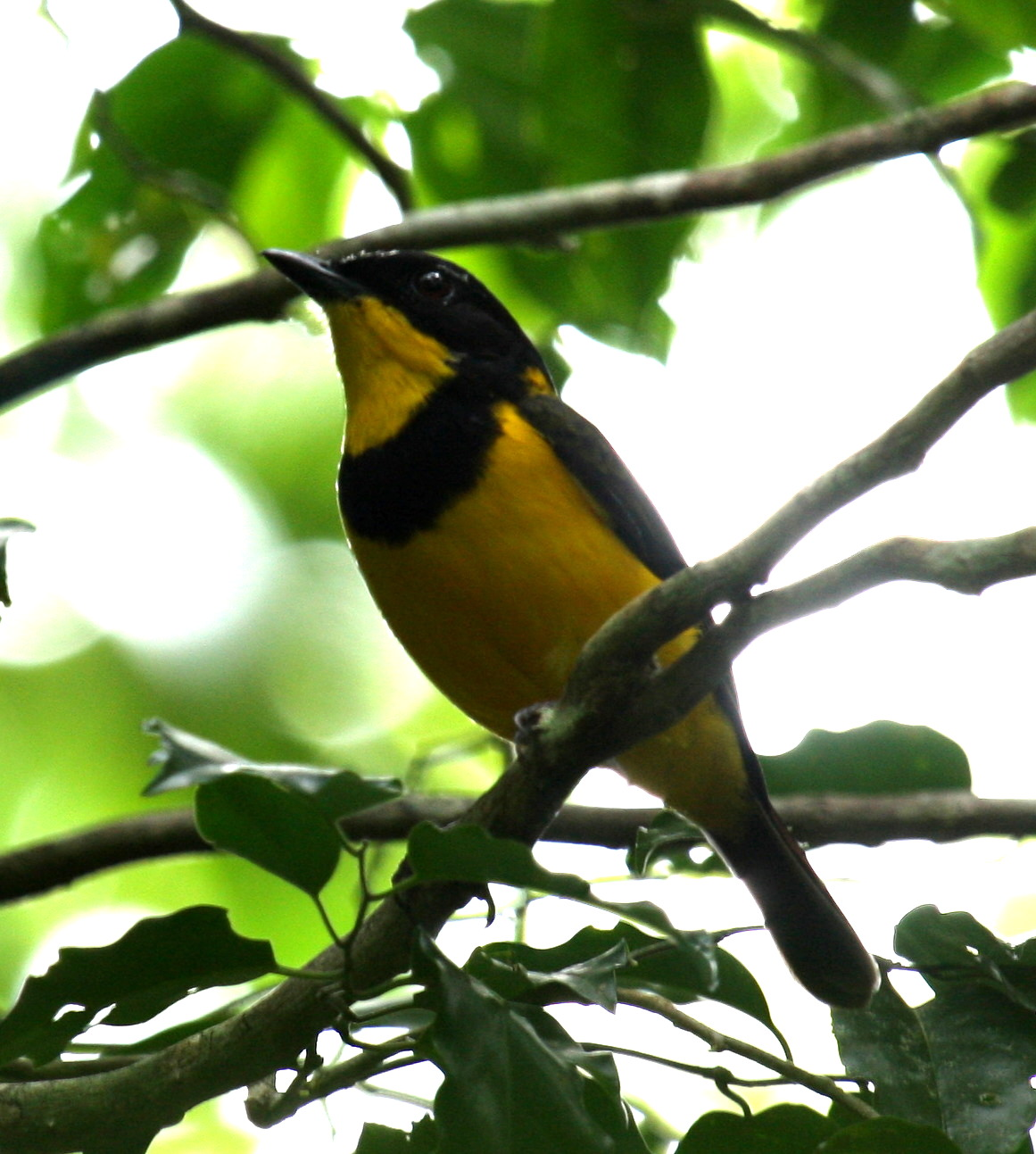 Fiji Whistler Pachycephala vitiensis torquata, male, Vidawa, Taveuni, Fiji Isles